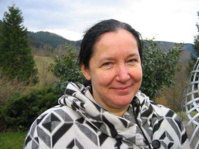 Mathematician Eva Bayer-Fluckiger at the workshop "Gitter und Anwendungen" ("Lattices and Applications") in Oberwolfach, 2005.